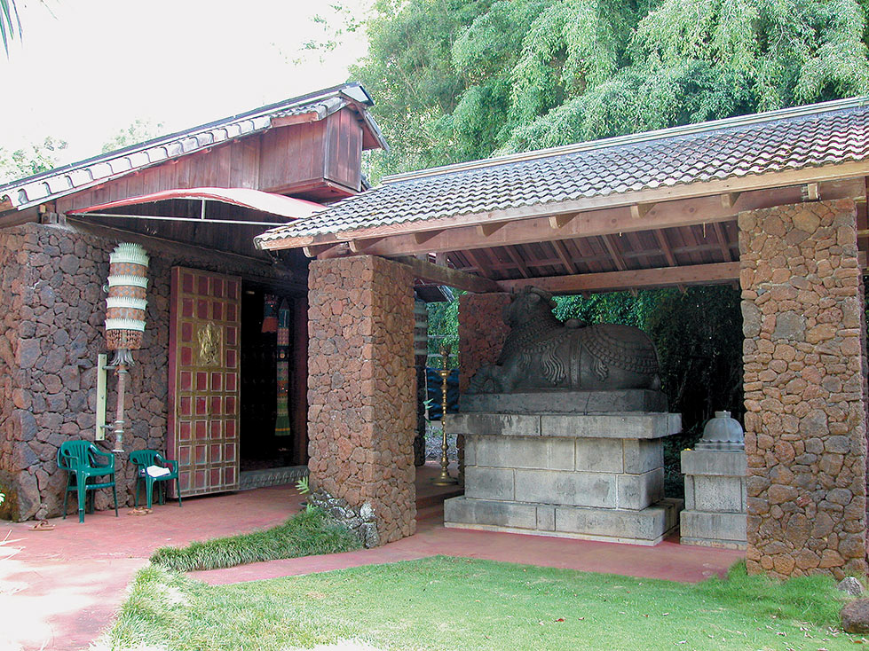 The Kauai Hindu Monastery's Kavadul temple, outside.